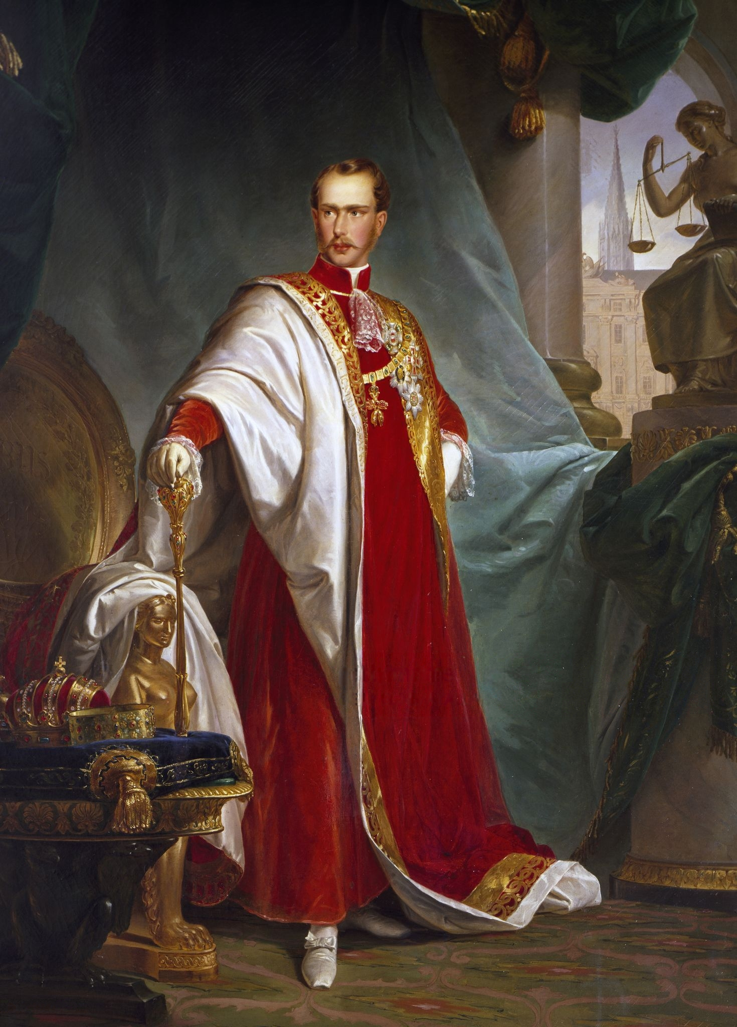 Portrait of Franz Joseph I of Austria (Castle of Schonbrunn 1830–1916), Emperor of Austria.